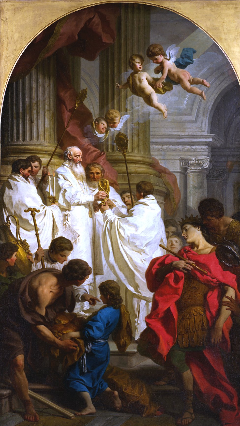 The Mass of Saint Basil